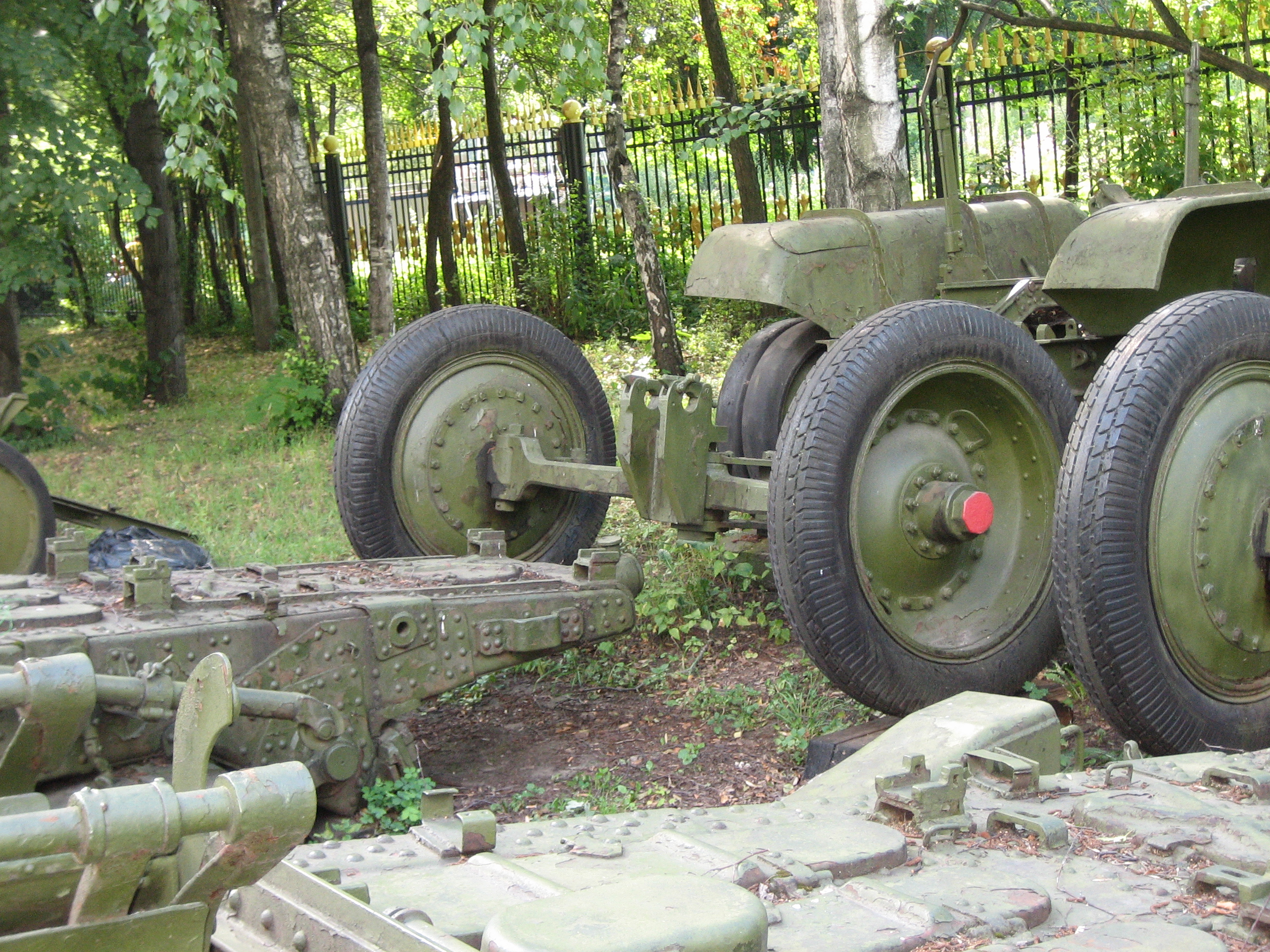 Soviet 152mm Br-2 Mark 1935 gun, displayed in Moscow Military Museum. Photo taken on 19 July, 2007. Source: Photo by me, User:Saiga20K.